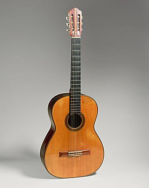 Guitar, 1912 Manuel Ramírez (1864-1916), Maker Madrid, Spain Gift of Emilita Segovia, Marquessa of Salobreña, 1986 (1986.353.1) The Metropolitan Museum of Art